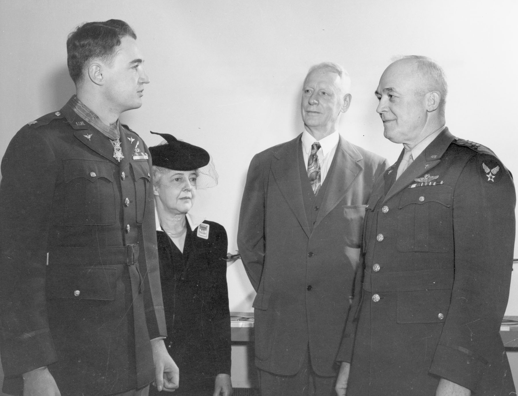 Gen. “Hap” Arnold presenting the Medal of Honor to Zeamer as his parents look on. (U.S. Air Force photo)